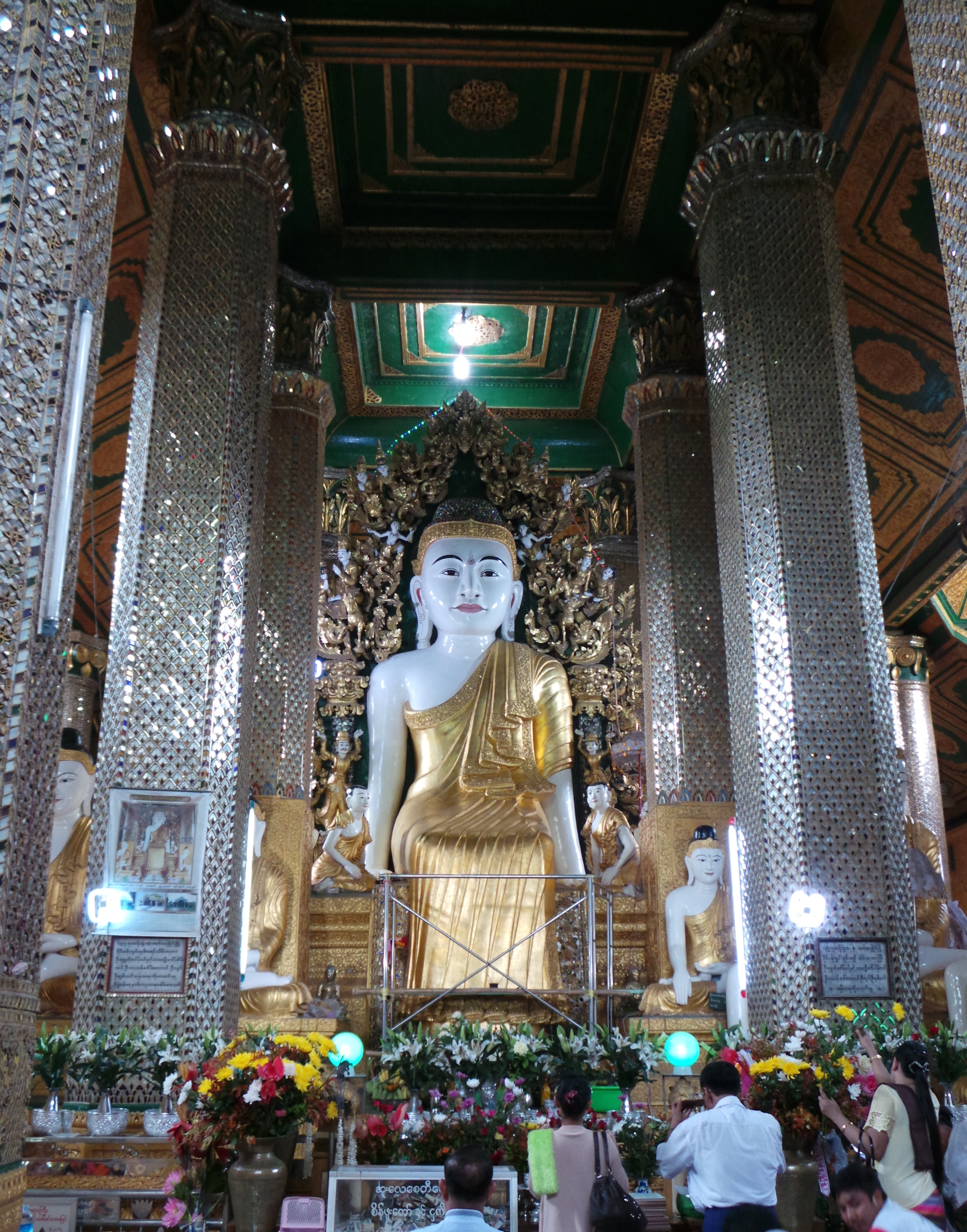 Kyaikmaraw Sitting Buddha Image, Kyaikmaraw, Mon State မြန်မာဘာသာ: ကျိုက်မရော ထိုင်တော်မူ ဗုဒ္ဓရုပ်ပွားတော်၊ ကျိုက်မရောမြို့၊ မွန်ပြည်နယ်။